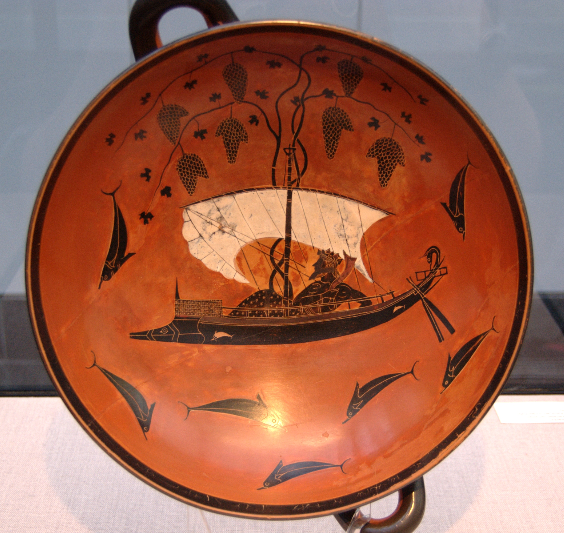 Dionysos in a ship, sailing among dolphins. Attic black-figure kylix, ca. 530 BC. From Vulci.